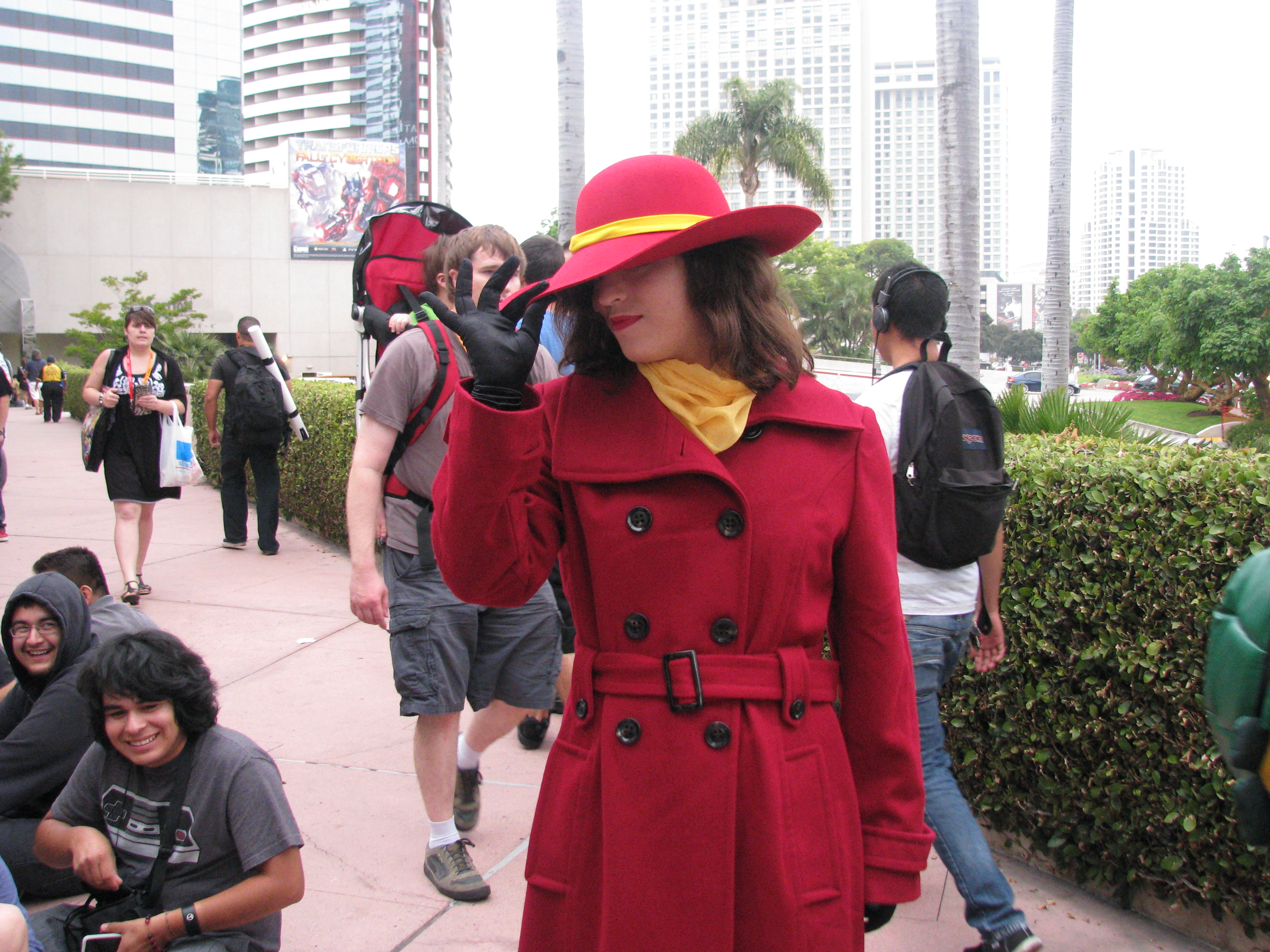 I found Carmen SanDeigo in San Diego. Cosplay at San Diego Comic Con 2012.